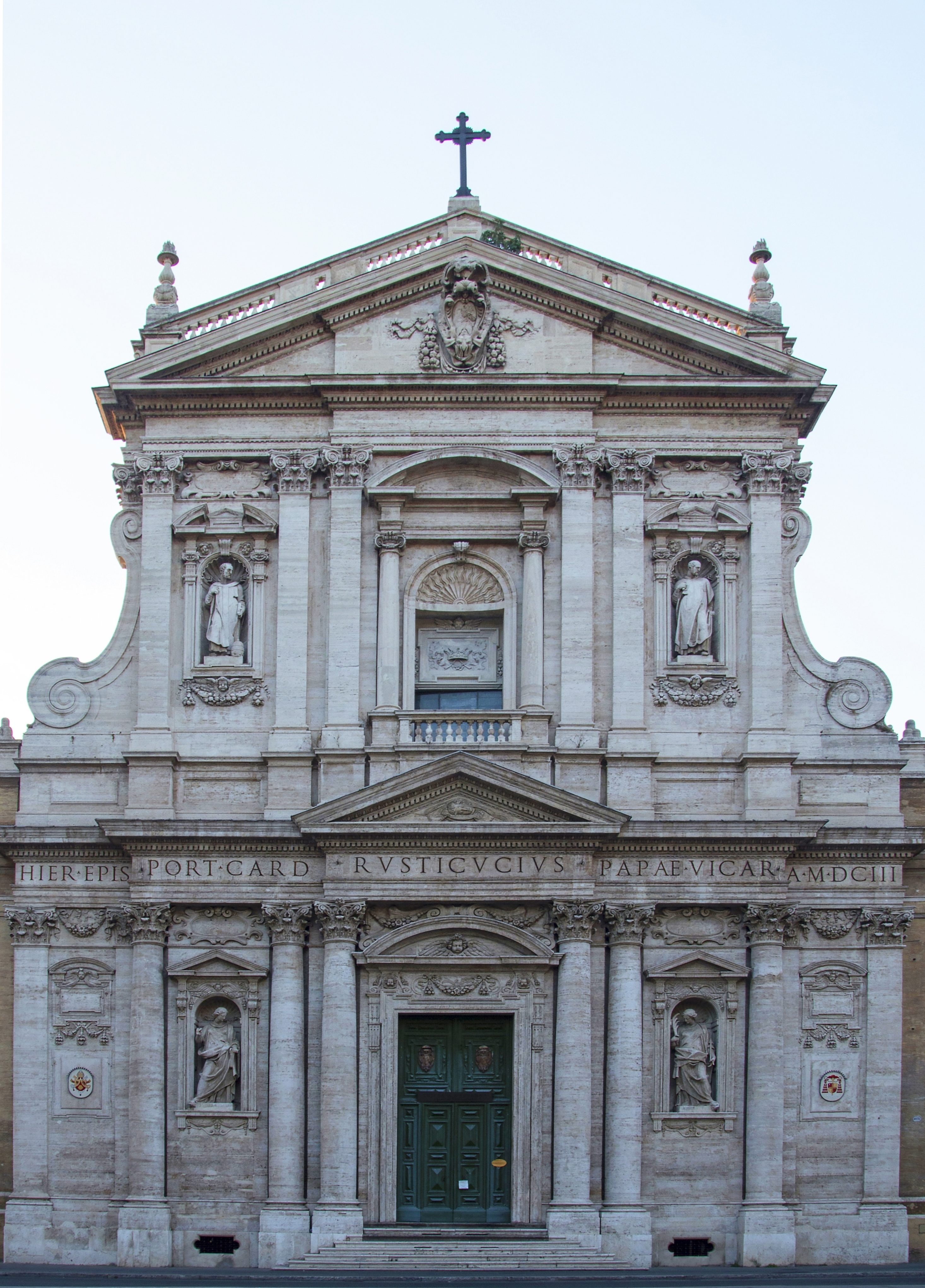 Chiesa di Santa Susanna alle Terme di Diocleziano